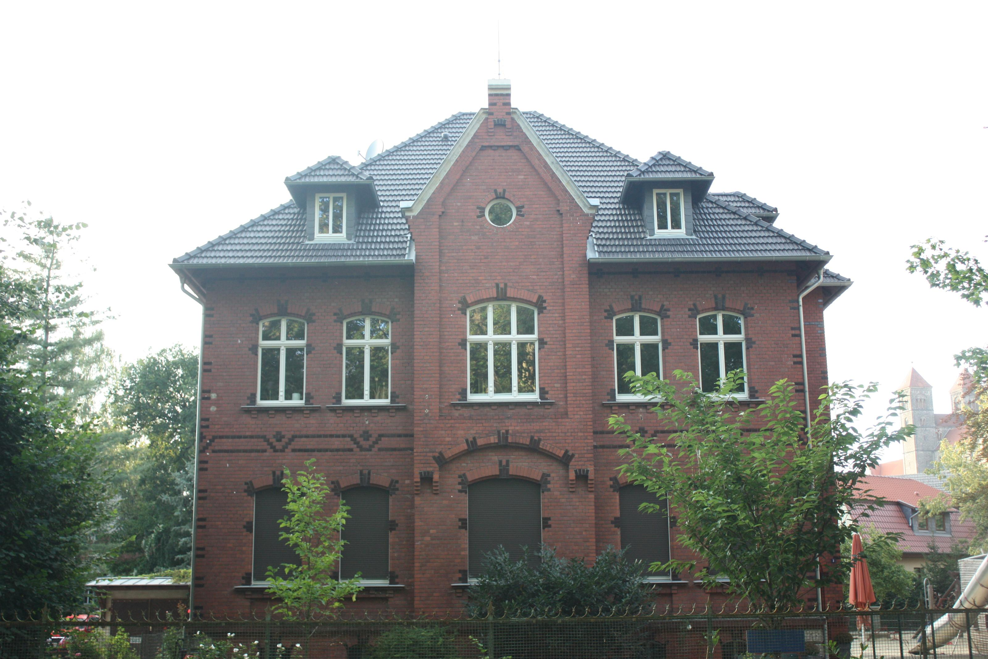 This is a photograph of an architectural monument.It is on the list of cultural monuments of Quedlinburg Brühlstraße 03 (Quedlinburg)